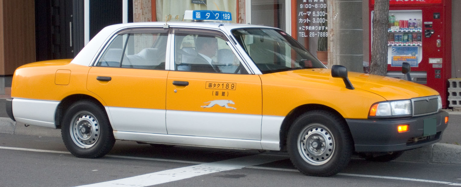 Nissan Crew (Hakodate taxi, Hokkaido, Japan)